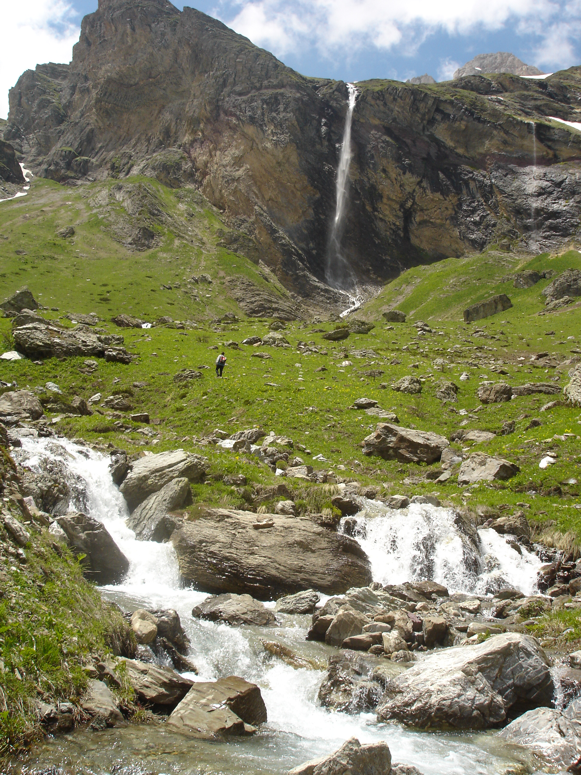 Korab waterfall and Dlaboka Reka, Macedonia